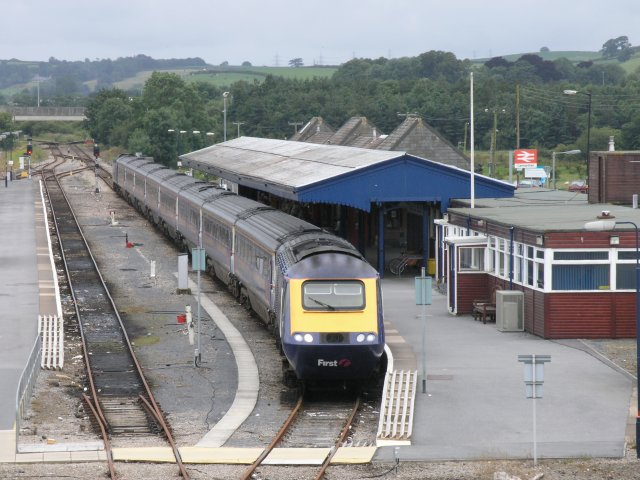 Intercity train in Carmarthen The only train of this length to pass through Carmarthen station does so twice a week (up and then down the line) on summer months.